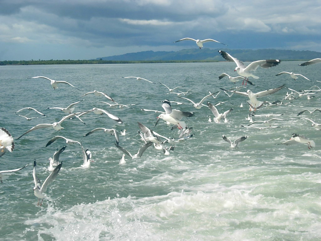 Larus brunnicephalus, winter plumage. This picture is taken on the way to Sent Martins from TekNaaf, Bangladesh